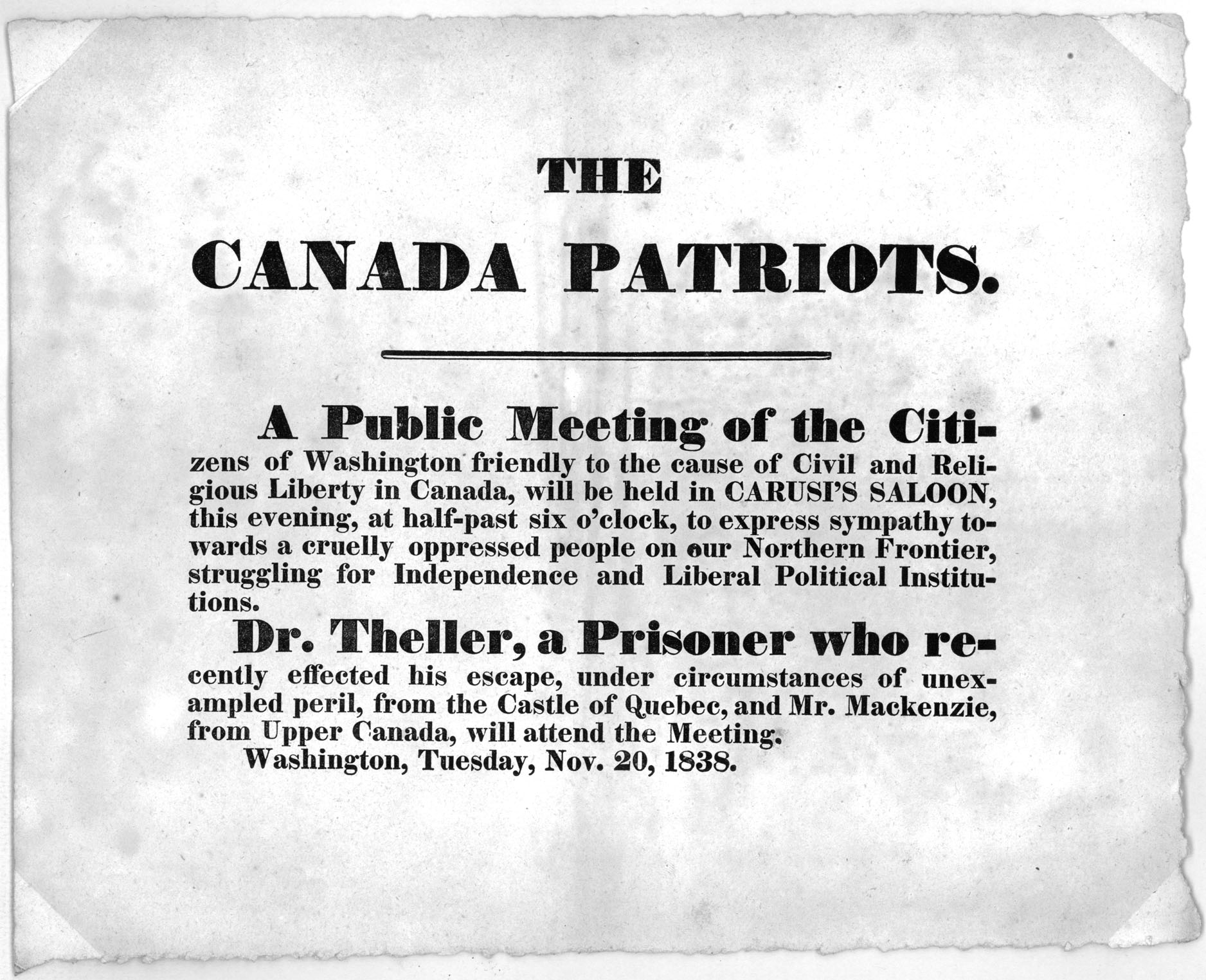 The Canada patriots. A public meeting of the citizens of Washington friendly to the cause of civil and religious liberty in Canada, will be held in Carusi's saloon this evening, at half-past six o'clock, to express sympathy towards a cruelly oppressed people on our Northern Frontier, struggling for Independence and Liberal Political Institutions.